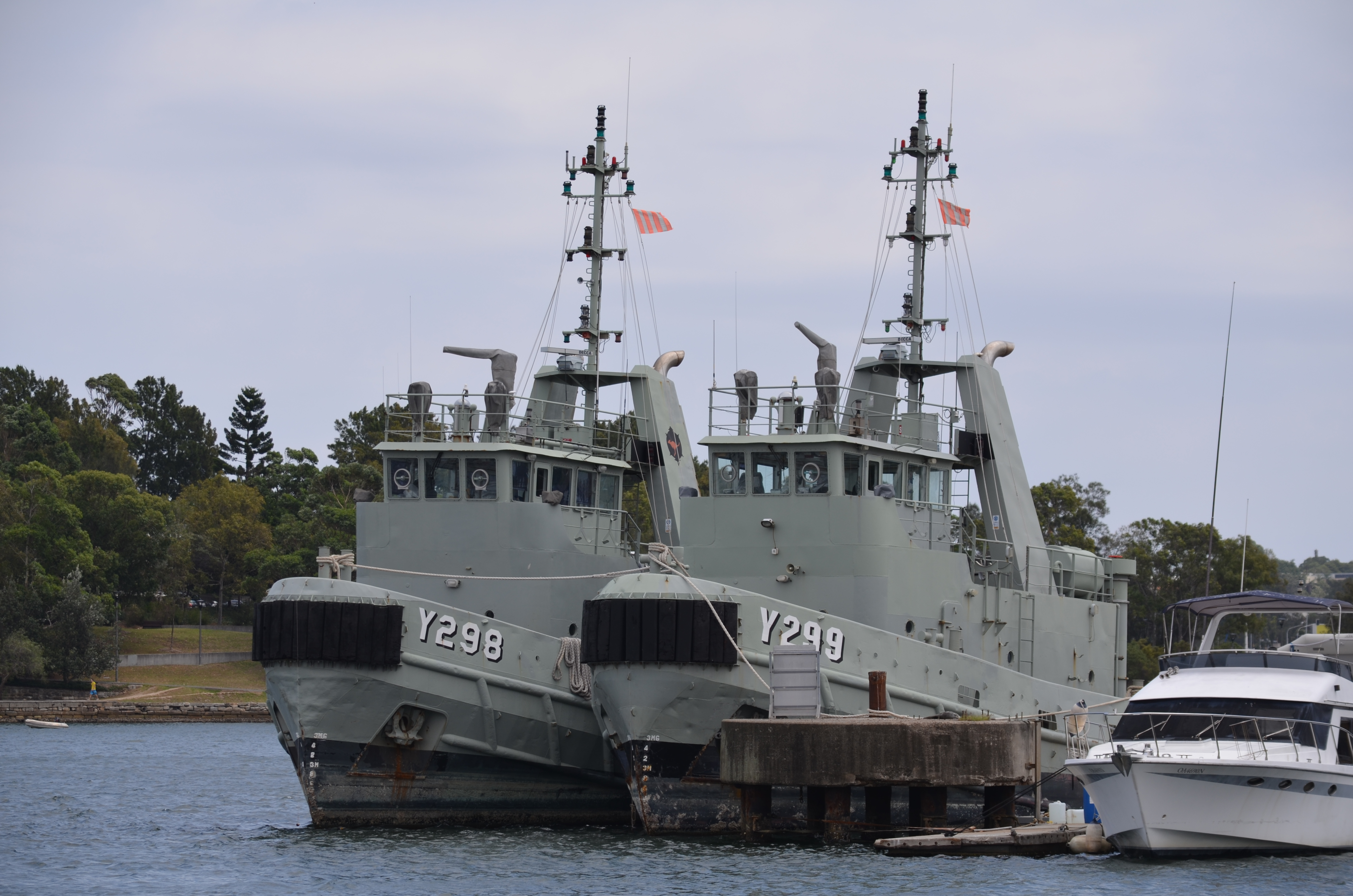 The auxiliary minesweepers MSA Bandicoot and MSA Wallaroo berthed in Blackwattle Bay, New South Wales